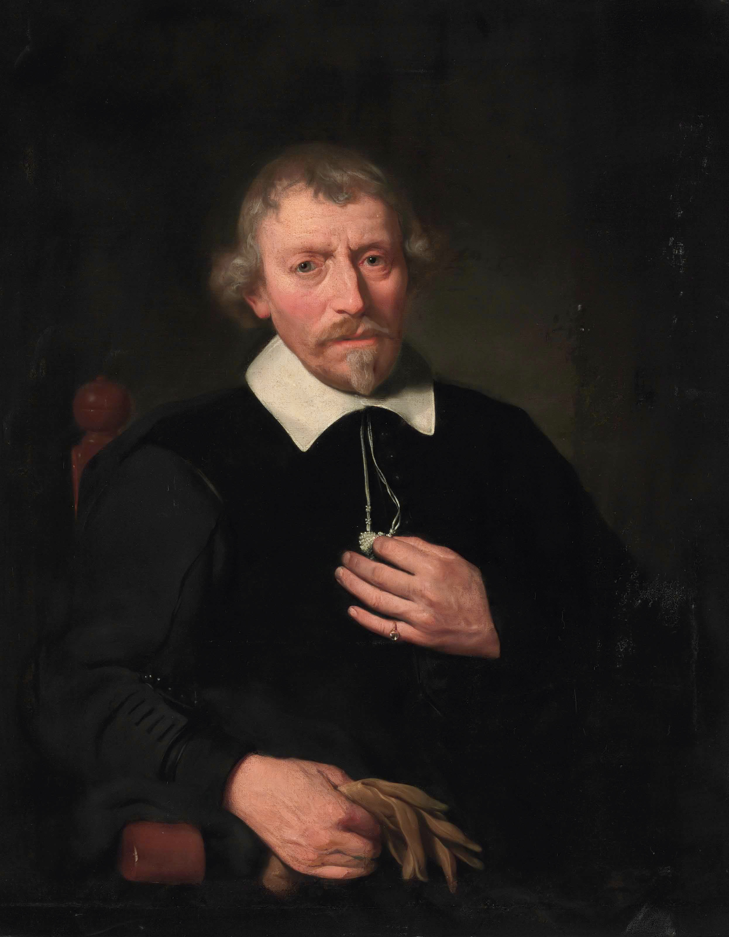 Jan Pietersz van den Eeckhout (1584 - 1652) oil on canvas, laid down on board 87.8 x 69.9 cm signed t.l.: AE 66 / G-B Eeckhout / 1651